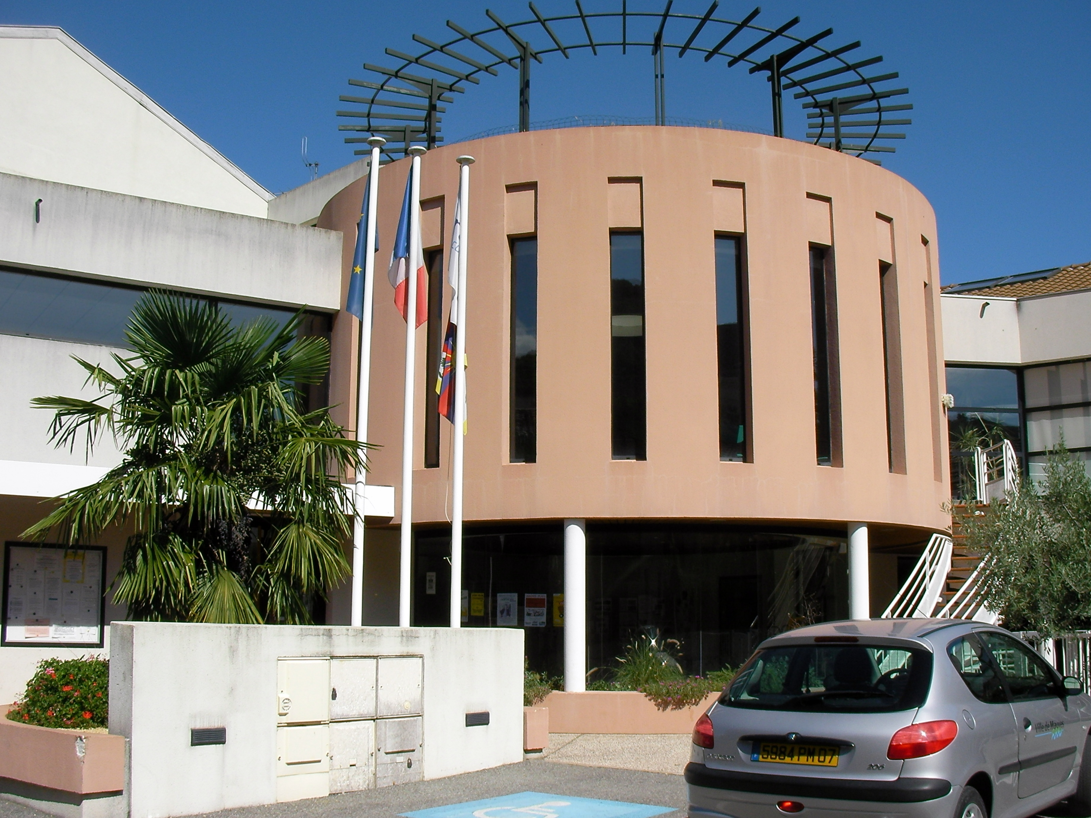 Town hall of Mauves (Ardèche/France)